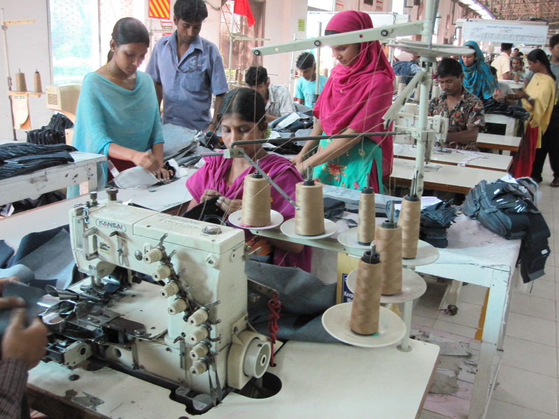 Photo by Mona Mijthab, July 2011